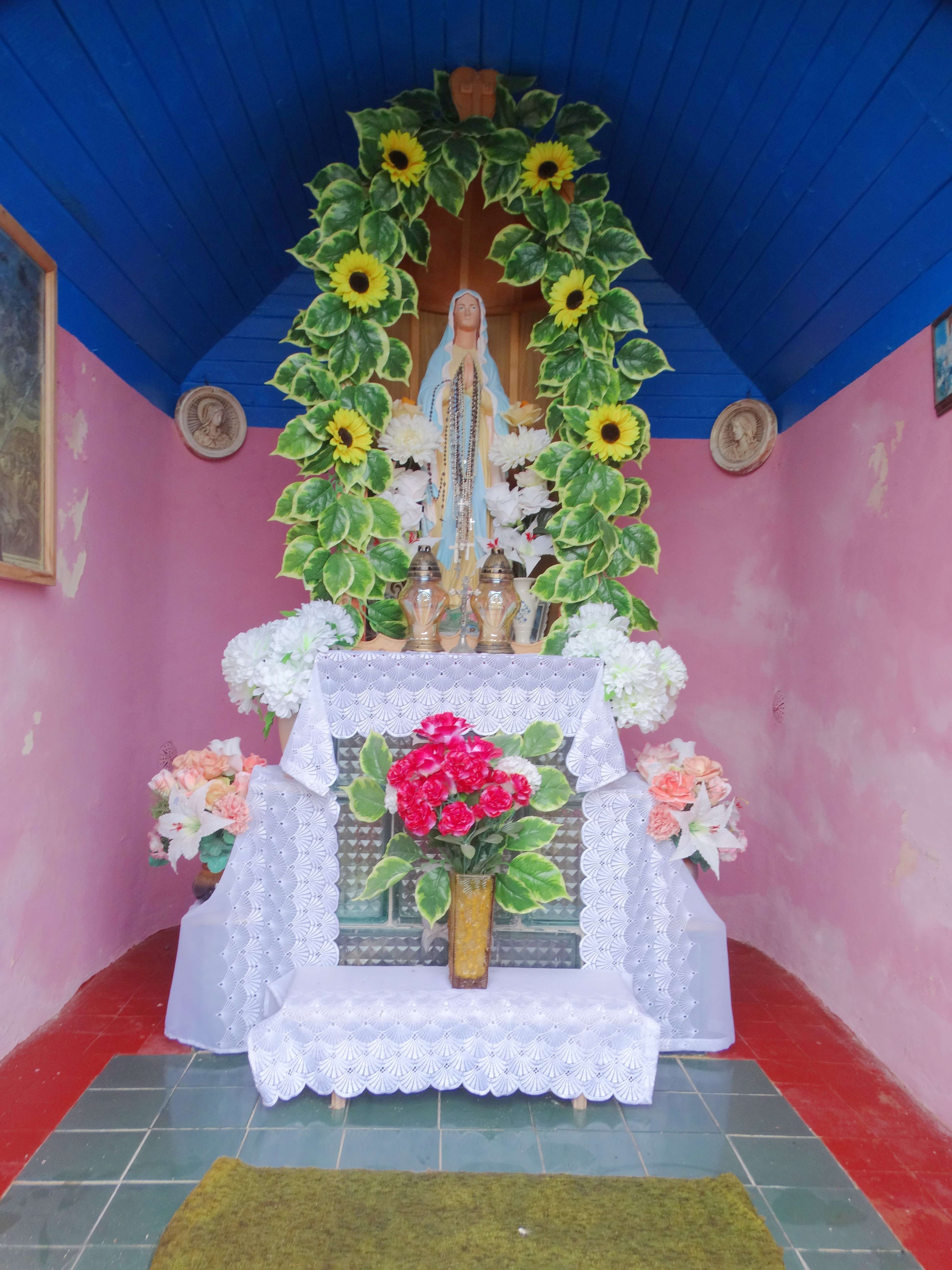 Narvydžiai chapel, Skuodas District, Lithuania